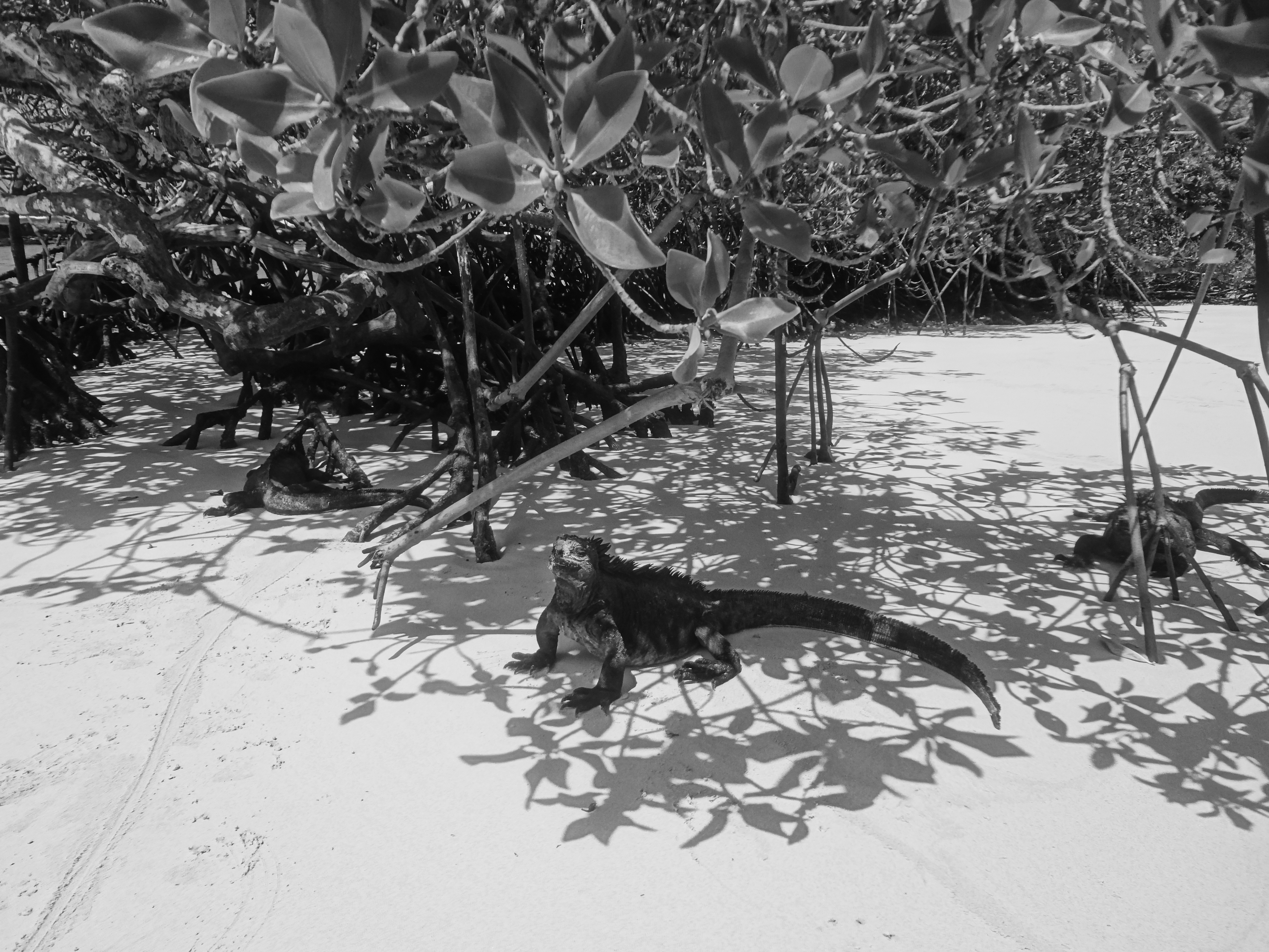 (Amblyrhynchus cristatus) Galápagos Islands at Tortuga Bay Santa Cruz Island